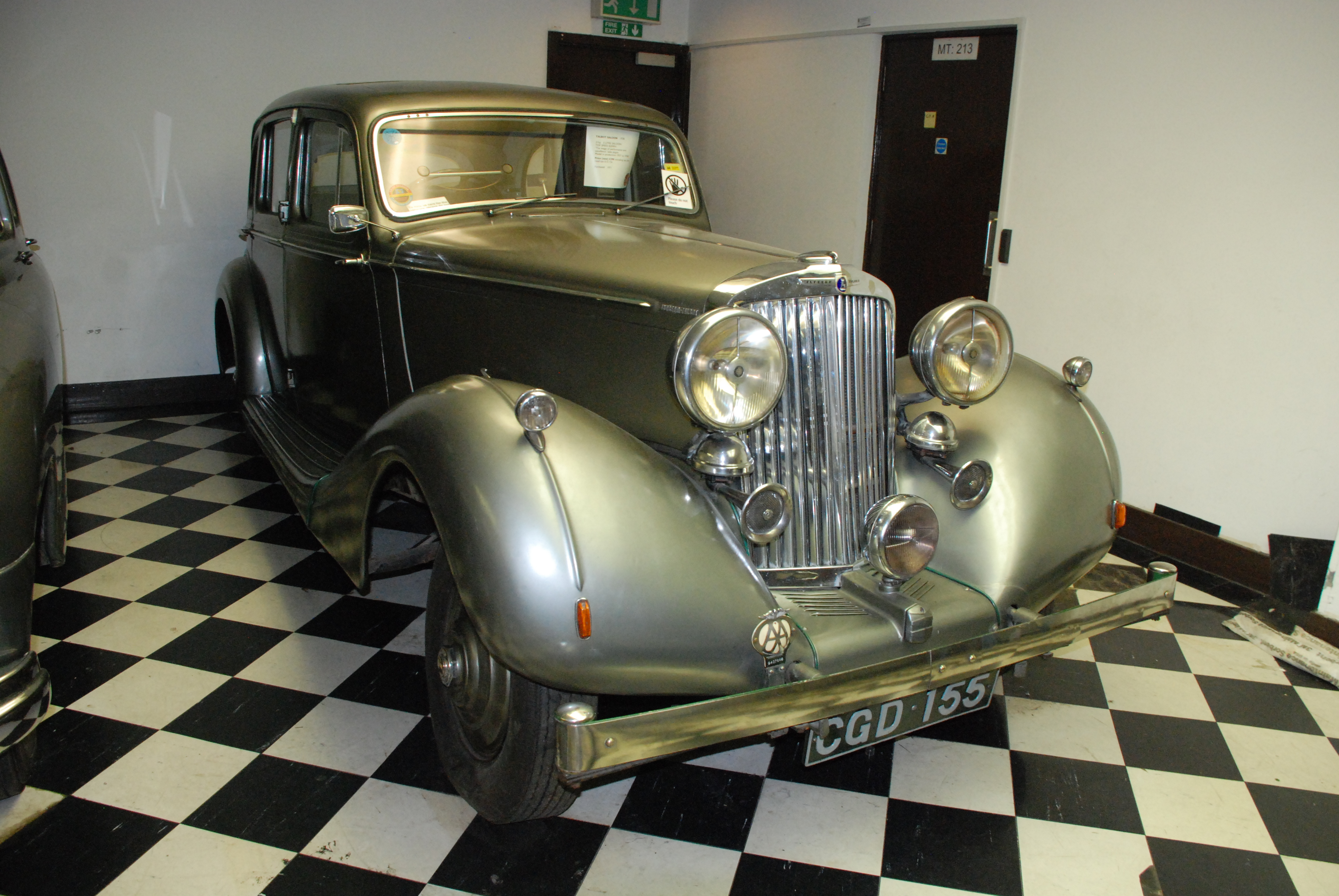 An under-rated Glasgow gem! We love it. Every visit yields new insight into the history of Scottish automotive engineering. Everybody loves it. Like 'The Simpsons" its appeal is universal across all ages and demographics. And its free! Go see it if you can.